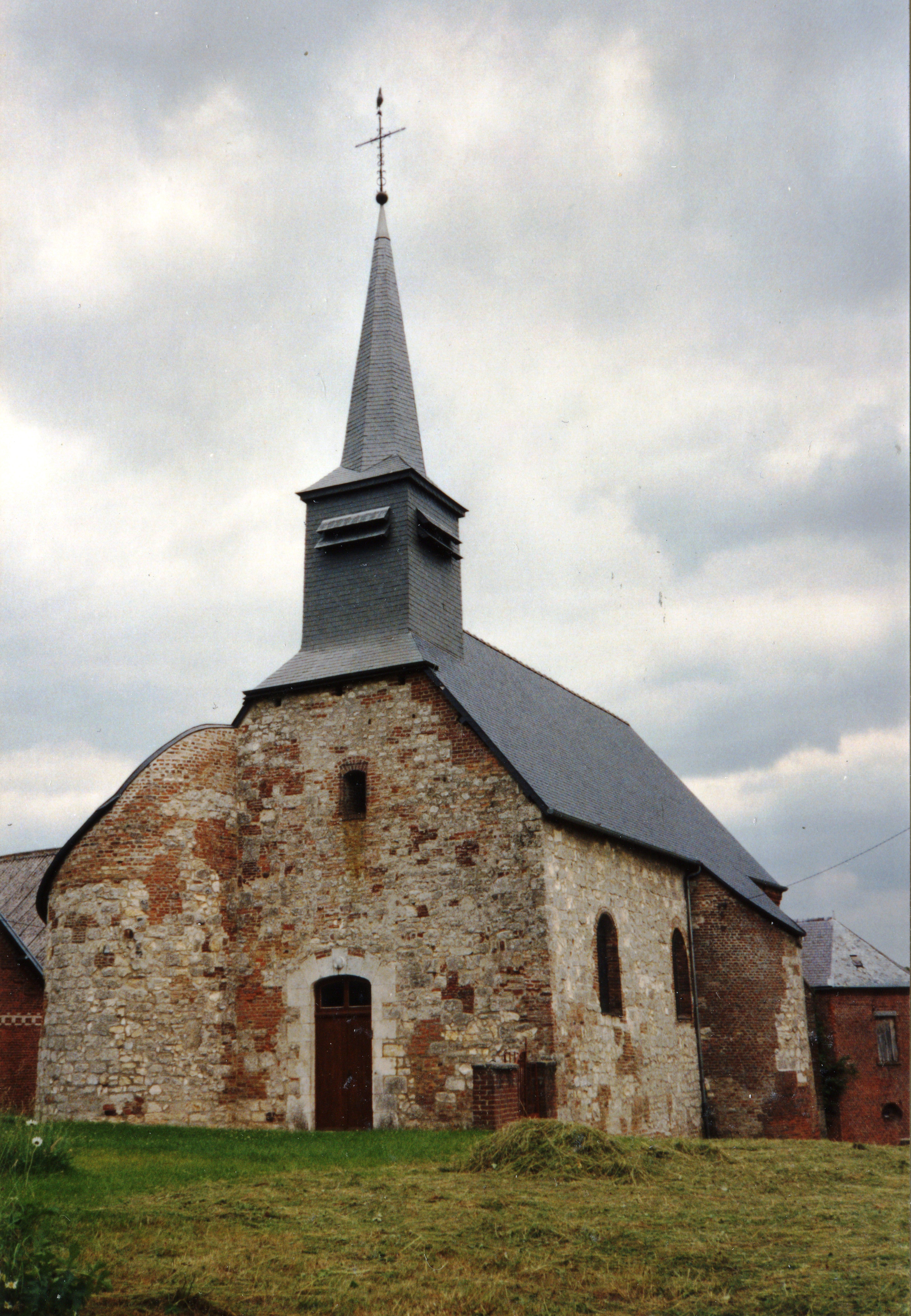 Église Saint-Pierre de La Hérie en 1991